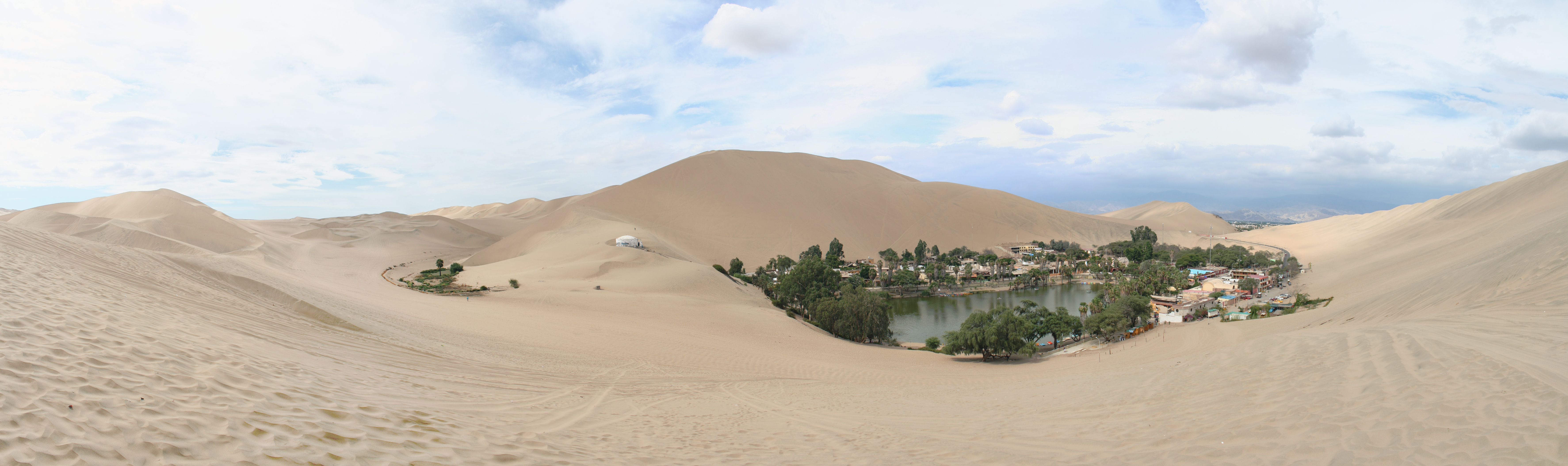 Huacachina and surrounding dunes